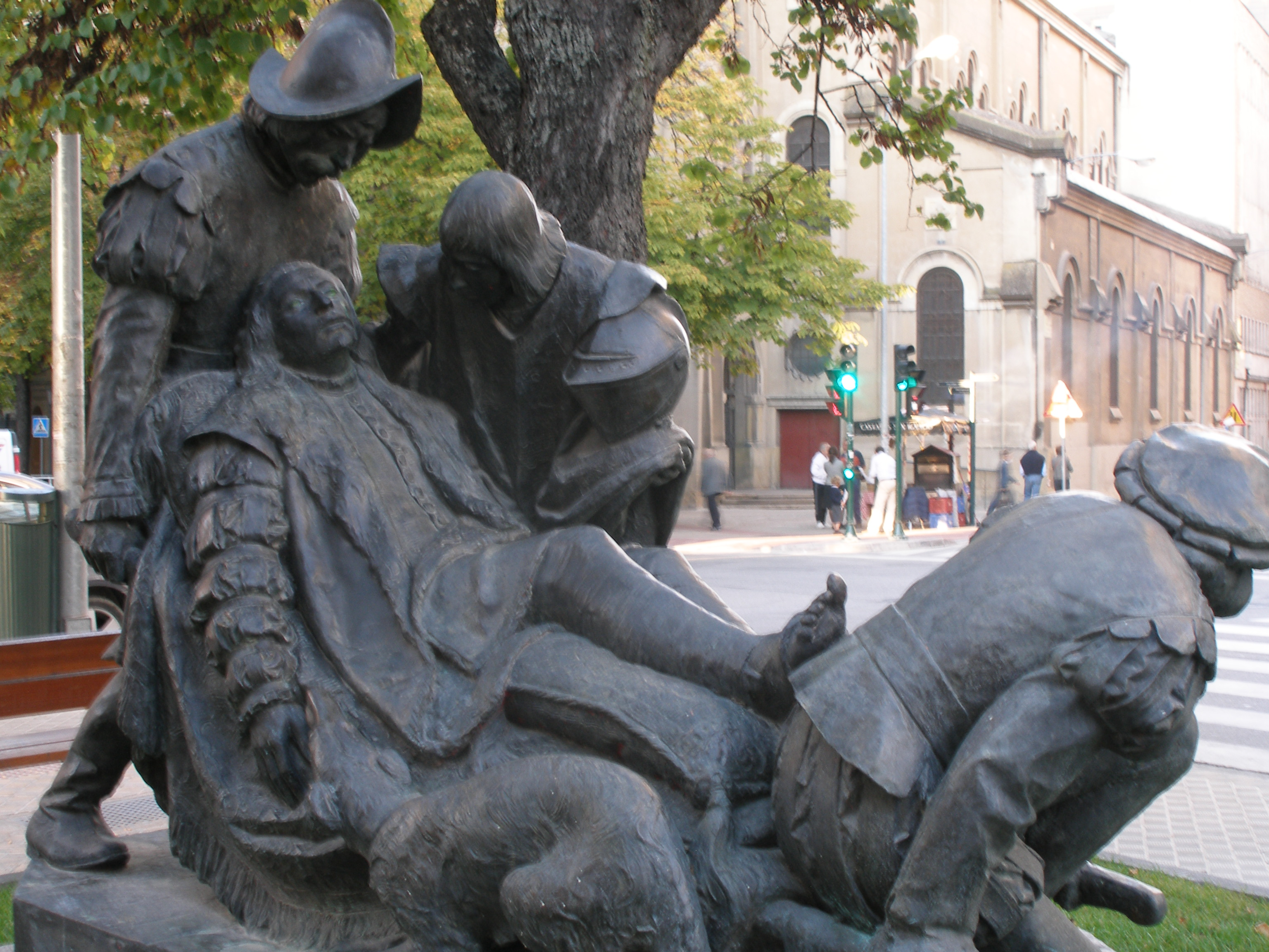 San Ignacio's monumente in Pamplona